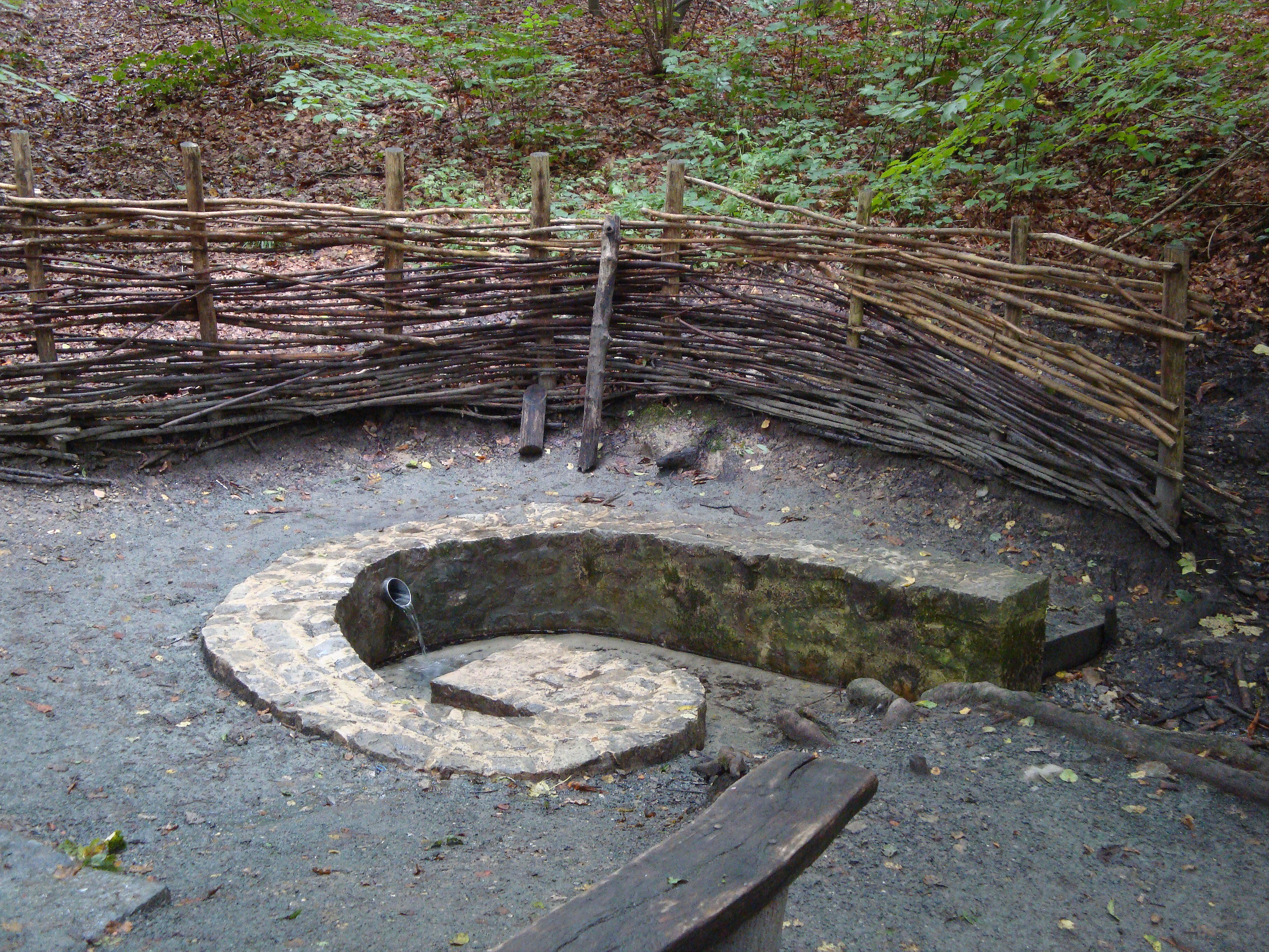 Drinking water spring called "Minnebron" in Oud-Heverlee, Belgium